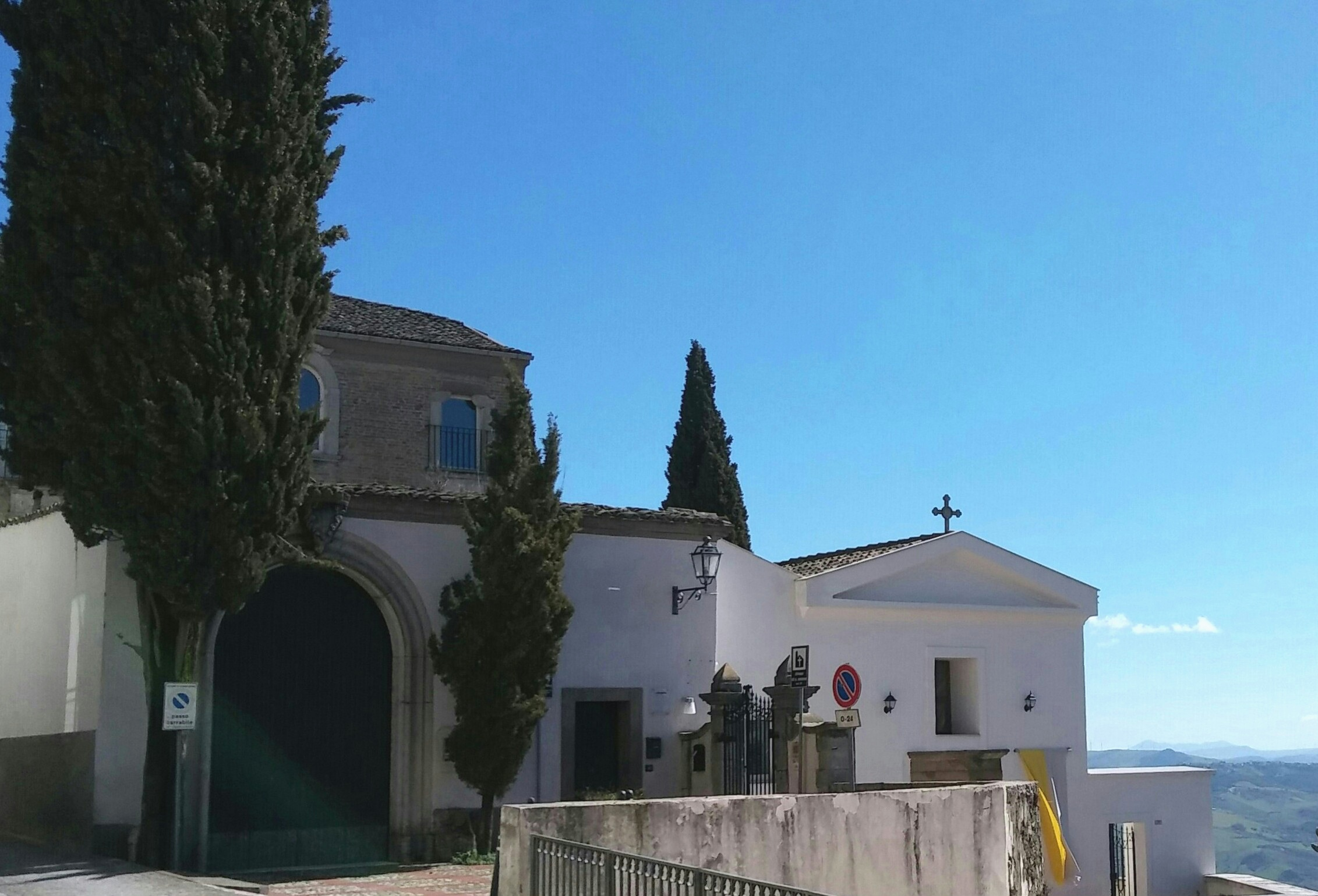 St. Andrew Chapel, Ariano Irpino, Italy